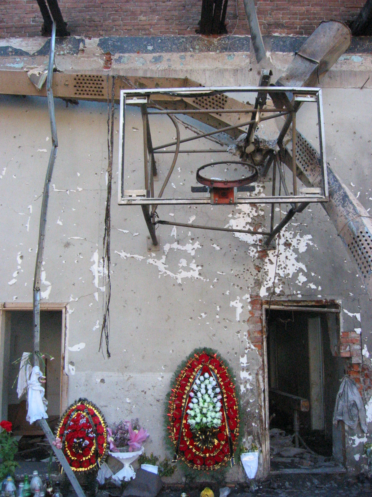 Memorials laid near the basketball hoop in the Beslan Schools gymnasium. Also, if you look from the right bottom of the hoop to the door, you can see the bullet holes from siege.